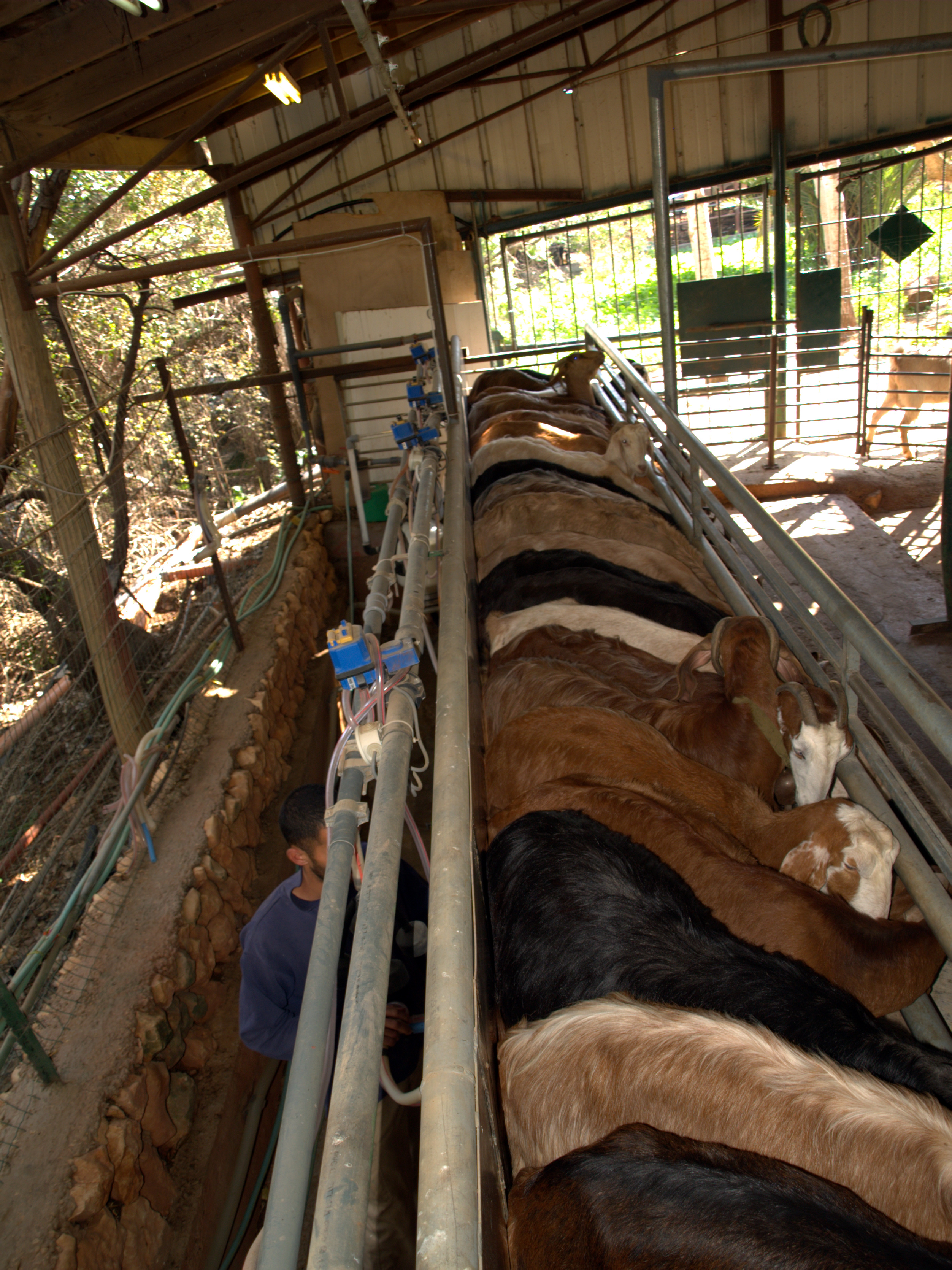 Milking goats on the organic farm located on the grounds of the homeopathic resort Hotel Mizpe Hayamim in Rosh Pina, Israel.